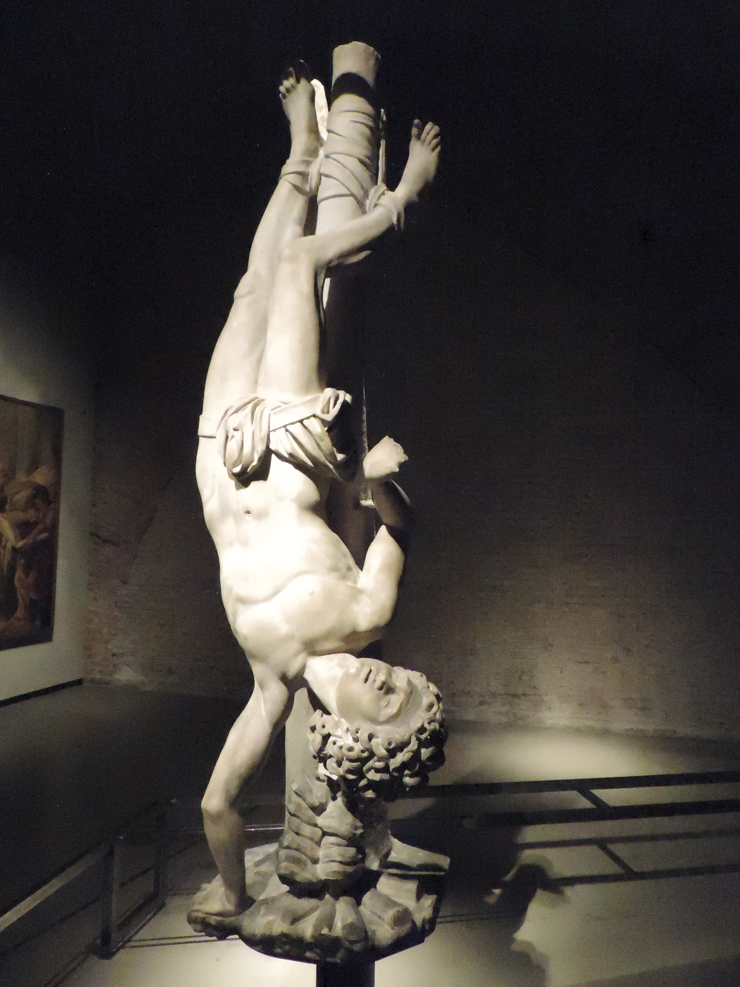 Statue of Saint Agapitus of Palestrina in Museo del Duomo - Milan. Author: Marco Antonio Prestinari (circa 1605-1607). Bracket statue from Candoglia marble.